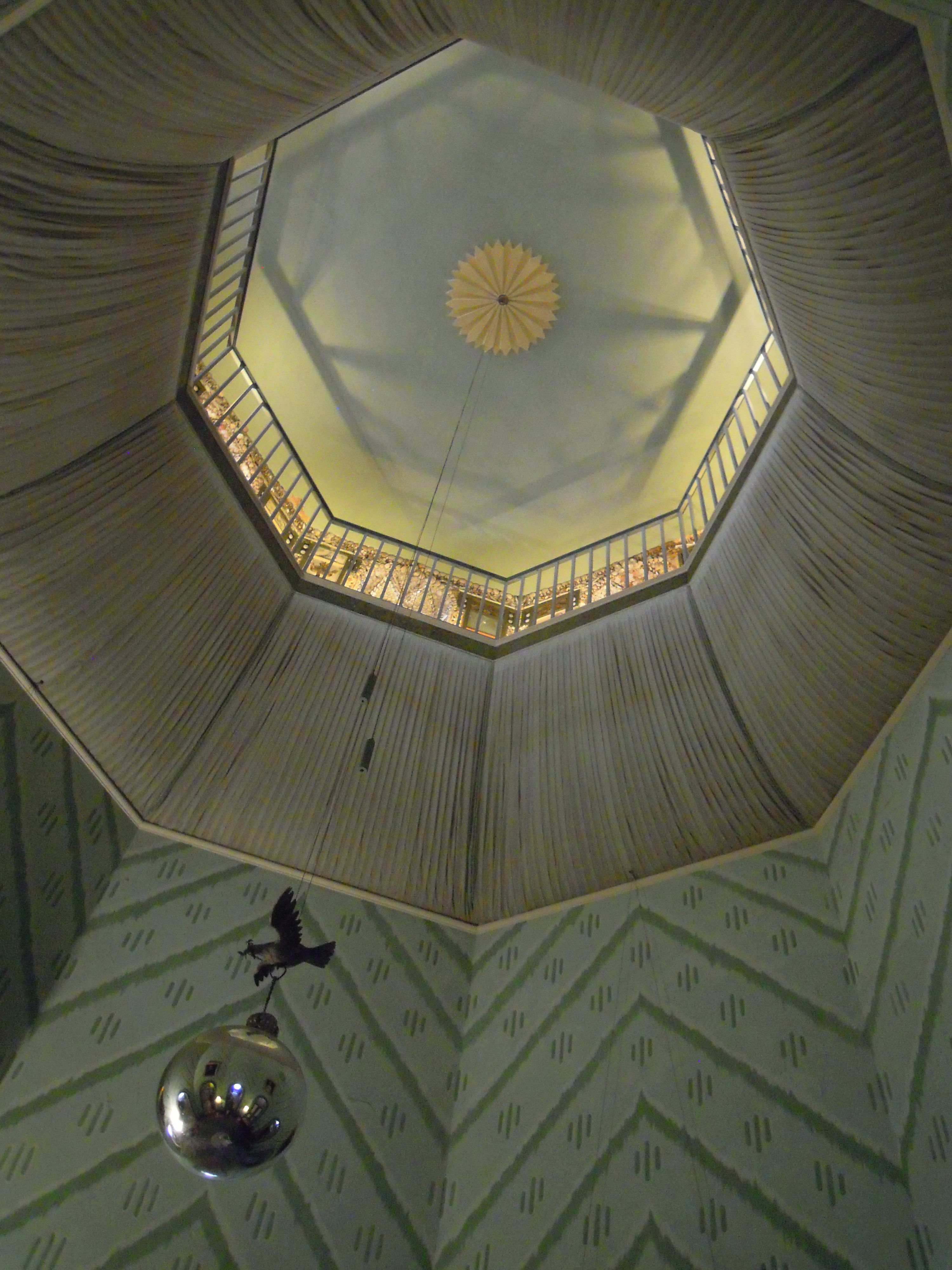 View up to the ceiling of the Octagon at A La Ronde showing the Shell Gallery at the summit